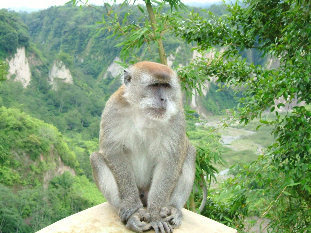 Macaca fascicularis at Ngarai Sianok, Bukittinggi, West Sumatra